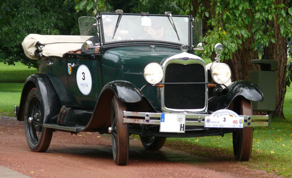 1928 Ford A Phaeton